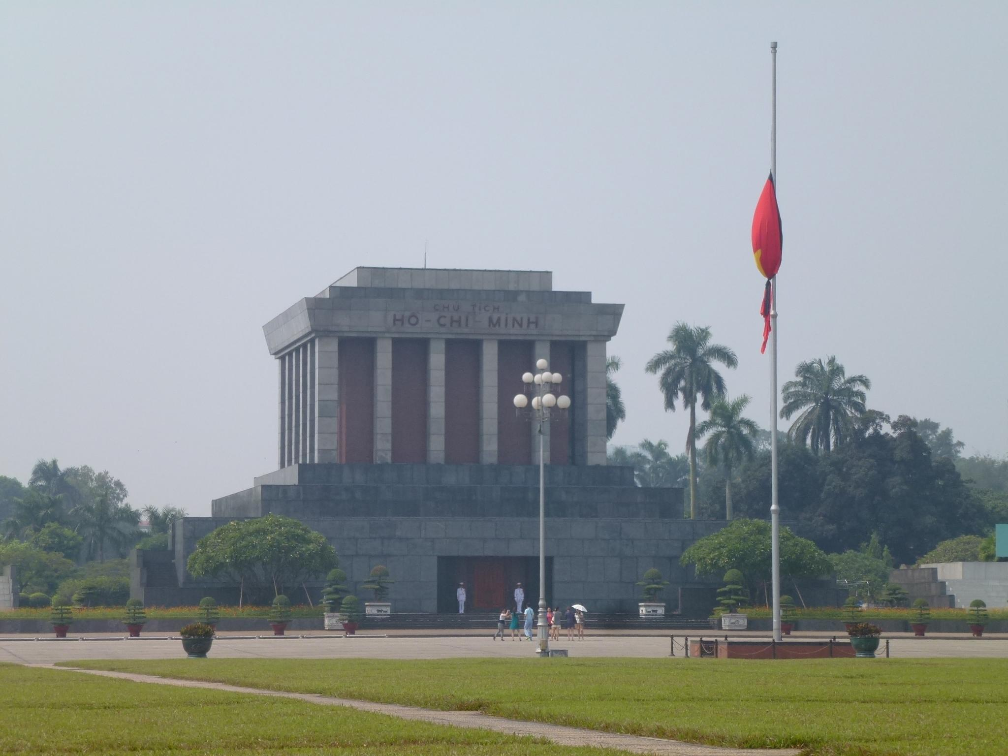 The Vietnamese flag was flown at half-mast at Ba Đình Square on October 12, 2013